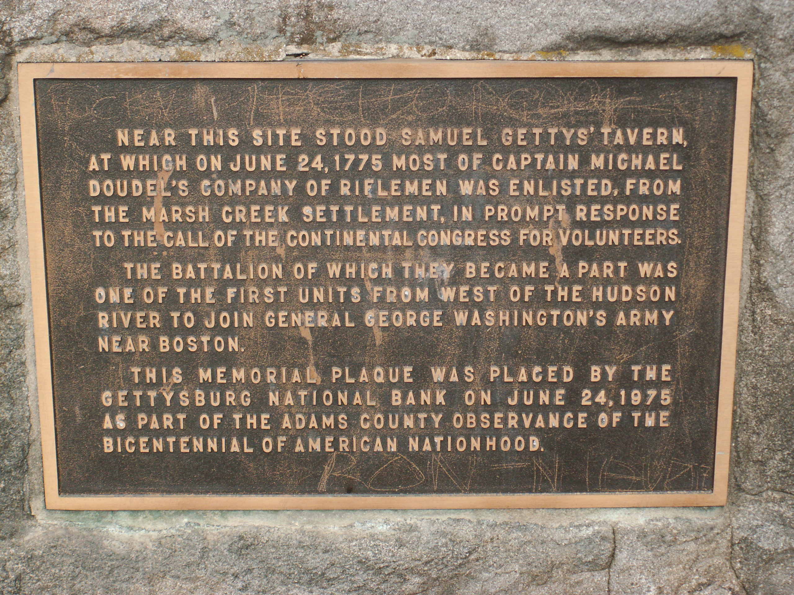 Historical tablet describing the importance of the tavern owned by Samuel Gettys, namesake of Gettysburg, Pennsylvania, USA